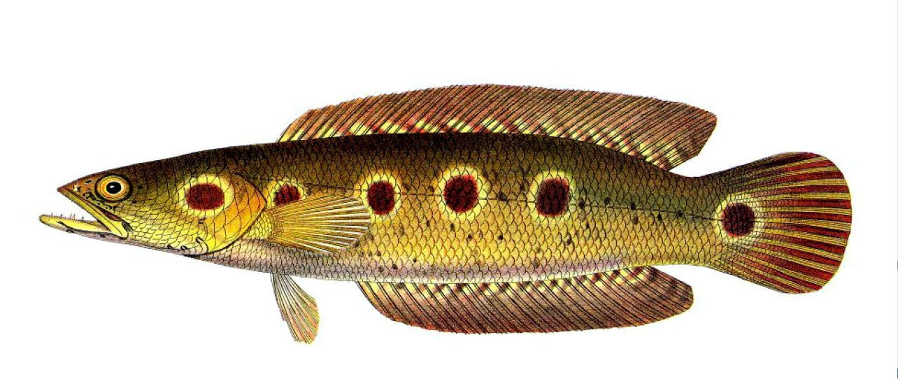 Ophicephalus pleurophthalmus Bleeker, 1851:270. Nieuwe bijdrage tot de kennis der ichthyologische fauna van Borneo mit beschrijving van eenige nieuwe soorten van zoetwatervisschen. Natuurkd. Tijdschr. Neder. Indië 1:259-275. Type locality: Bandjarmasin, Borneo, Indonesia. Syntype and/or Bleeker specimen: BMNH 1880.4.21.123.